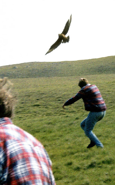 Skua attack, Fair Isle. A Great Skua, or 'Bonxie' dive-bombs intruders walking through its nesting territory on the northern slopes of Ward Hill.